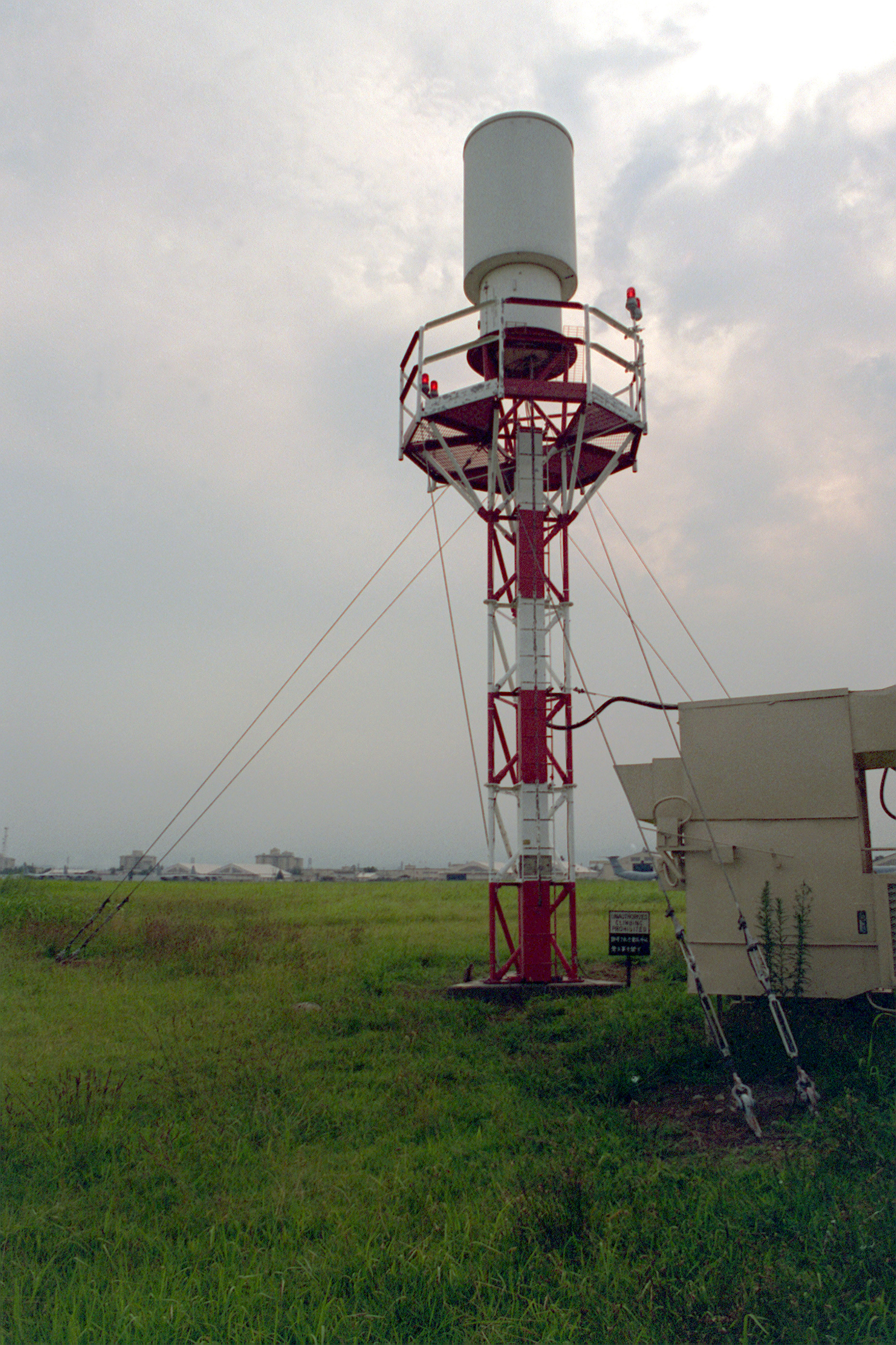 A view from the ground of a Tactical Air Navigation System (TACAN) antenna.